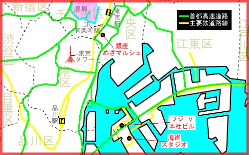 This is the Map of MezamashiTV-News-Show on Fuji-Television related area at Tokyo-Japan.